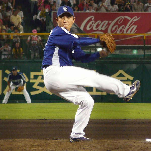 Akifumi Takahashi, pitcher of the Chunichi Dragons, at Hanshin Koshien Stadium